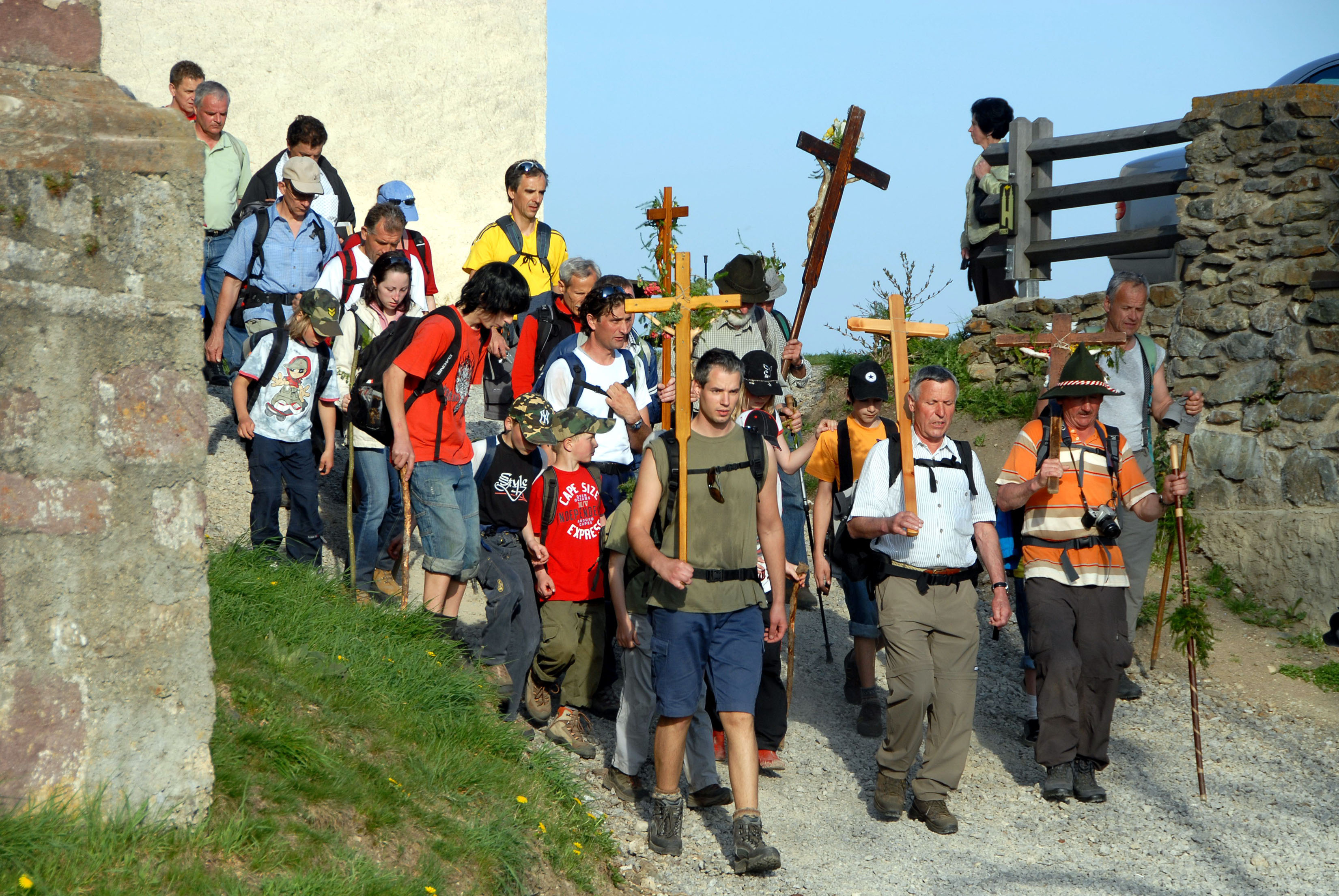 Pilgrimage of Vierbergelauf arrives at the parish church of Magdalensberg, Carinthia, Austria